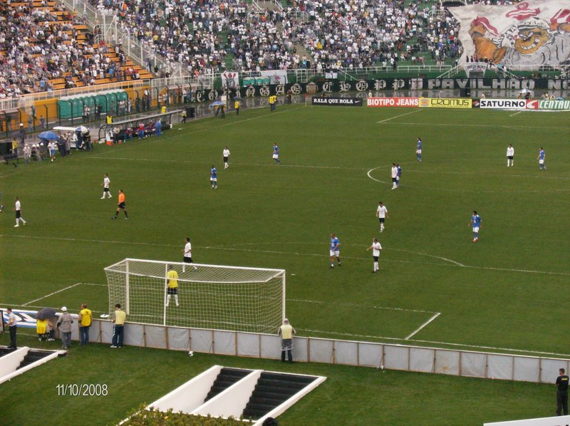 Player of soccer Marcelinho Carioca